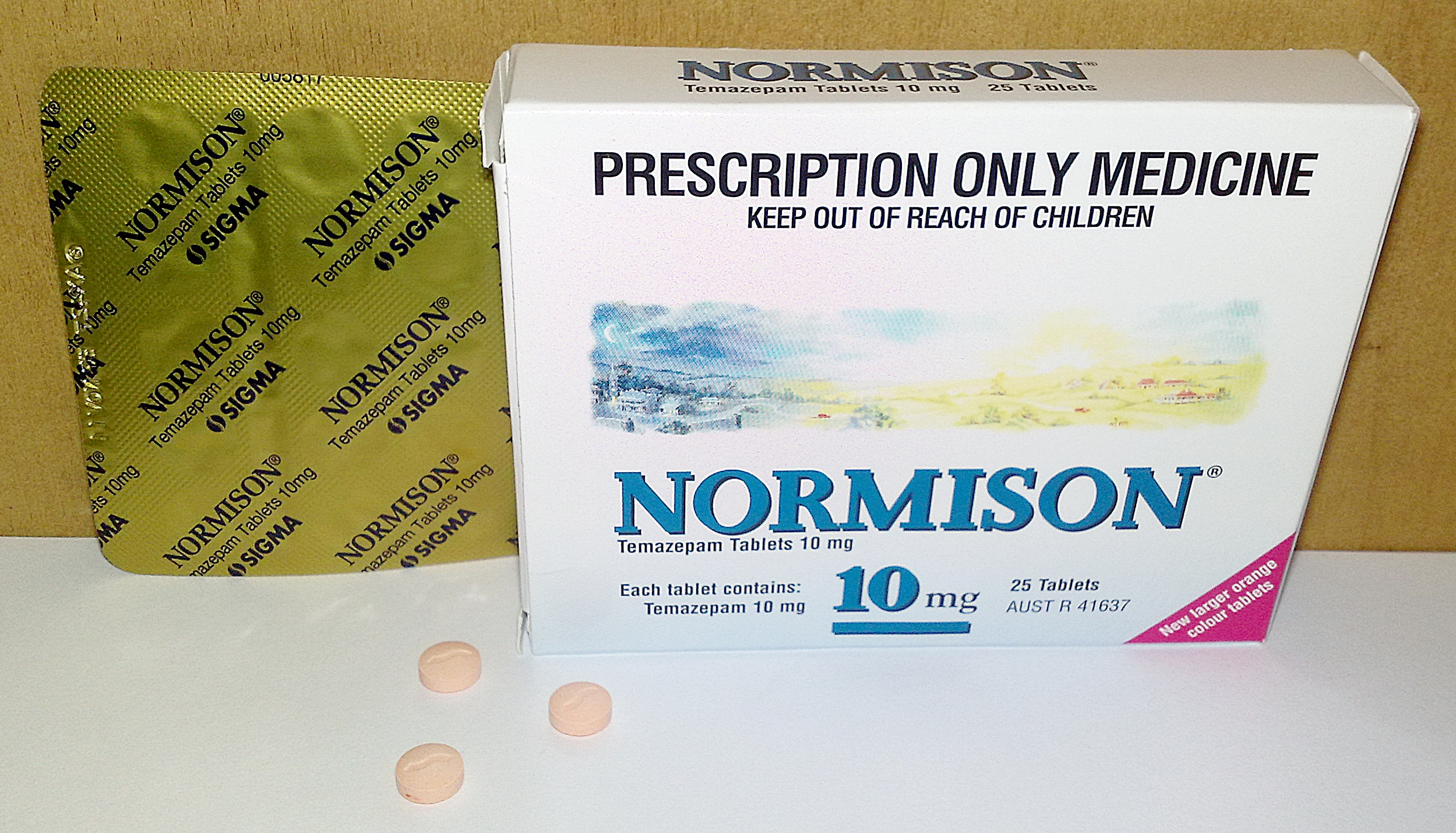 Normison